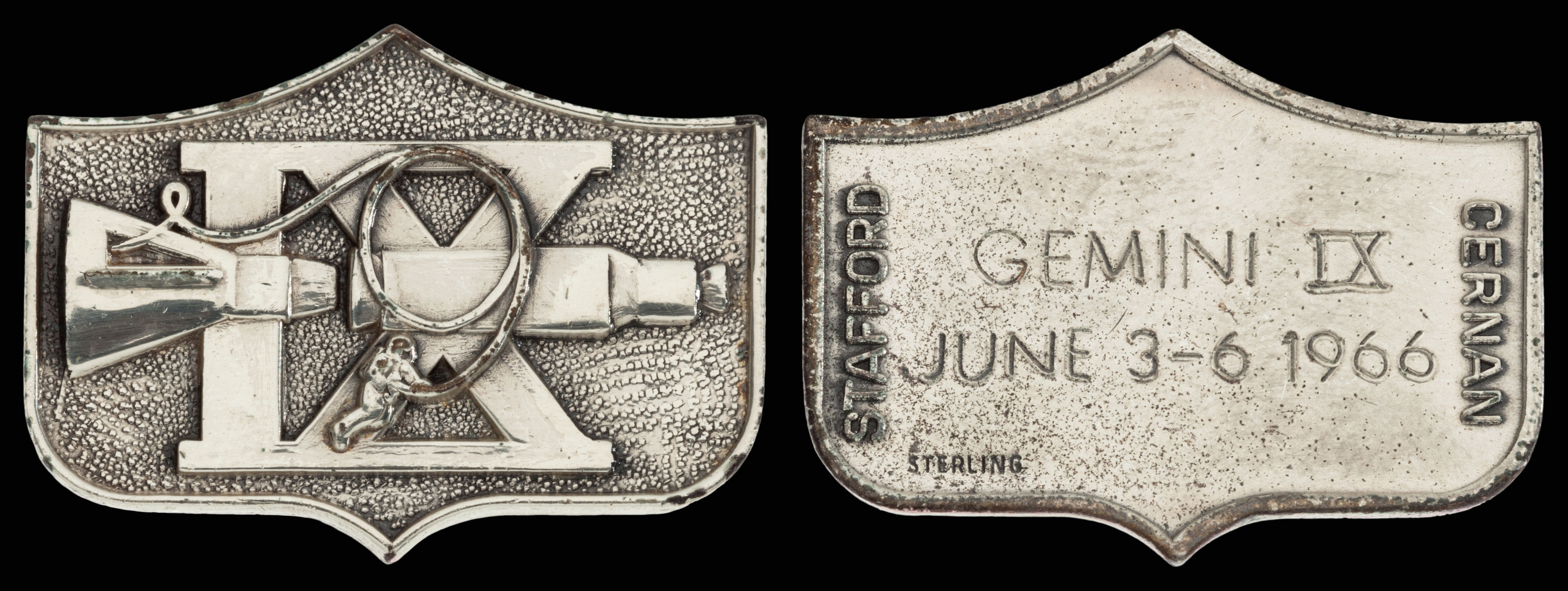 Gemini 9A Flown Silver Fliteline Medallion(6095-40062)